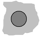 Circle area